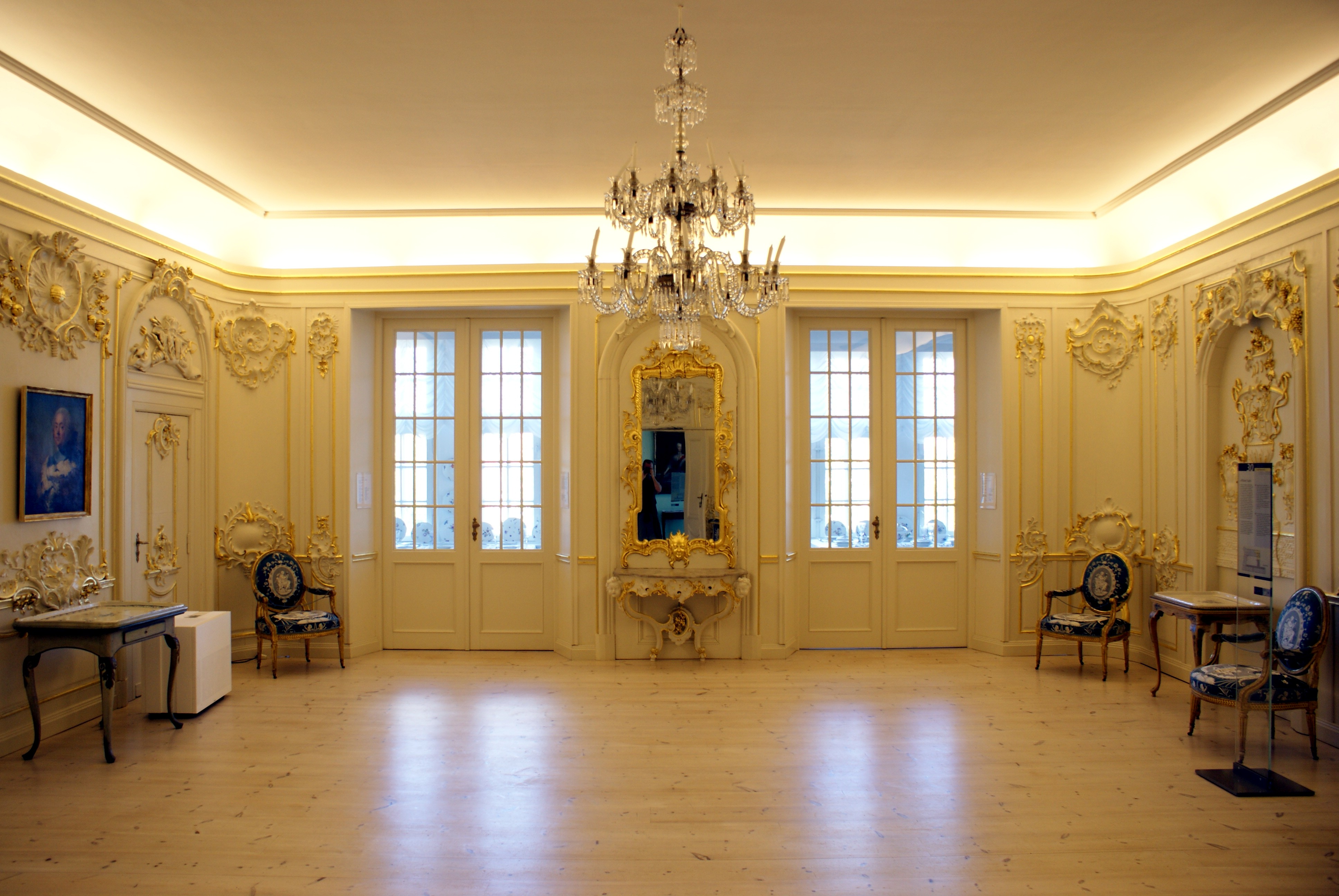 The 'Plöner Hall', now located at Gottorf Castle, originally located at the Castle of Plön